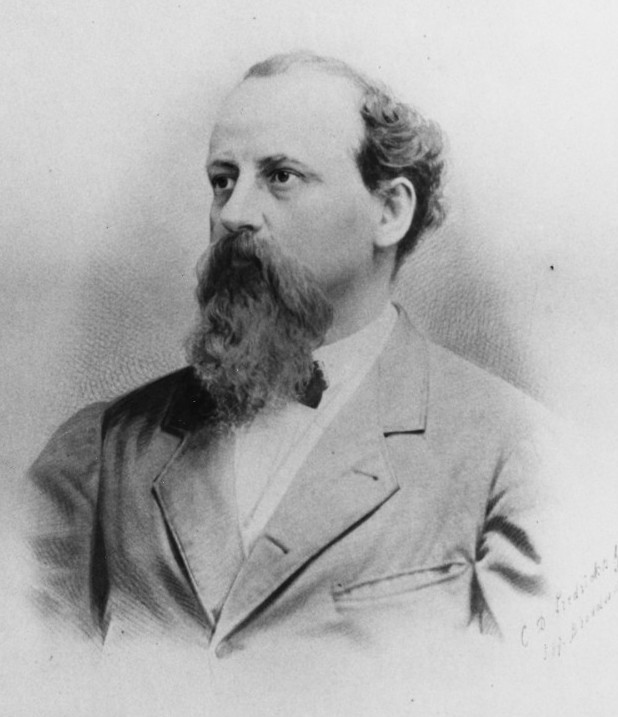 Gustavus Vasa Fox, head-and-shoulders portrait, facing left, Assistant Secretary of the Navy, 1861-1866. Print published by C.D. Fredricks & Company, New York, circa 1861-1865. It was inscribed by Fox to Rear Admiral William B. Shubrick in 1865. U.S. Naval History and Heritage Command Photograph, ID: NH 91991.